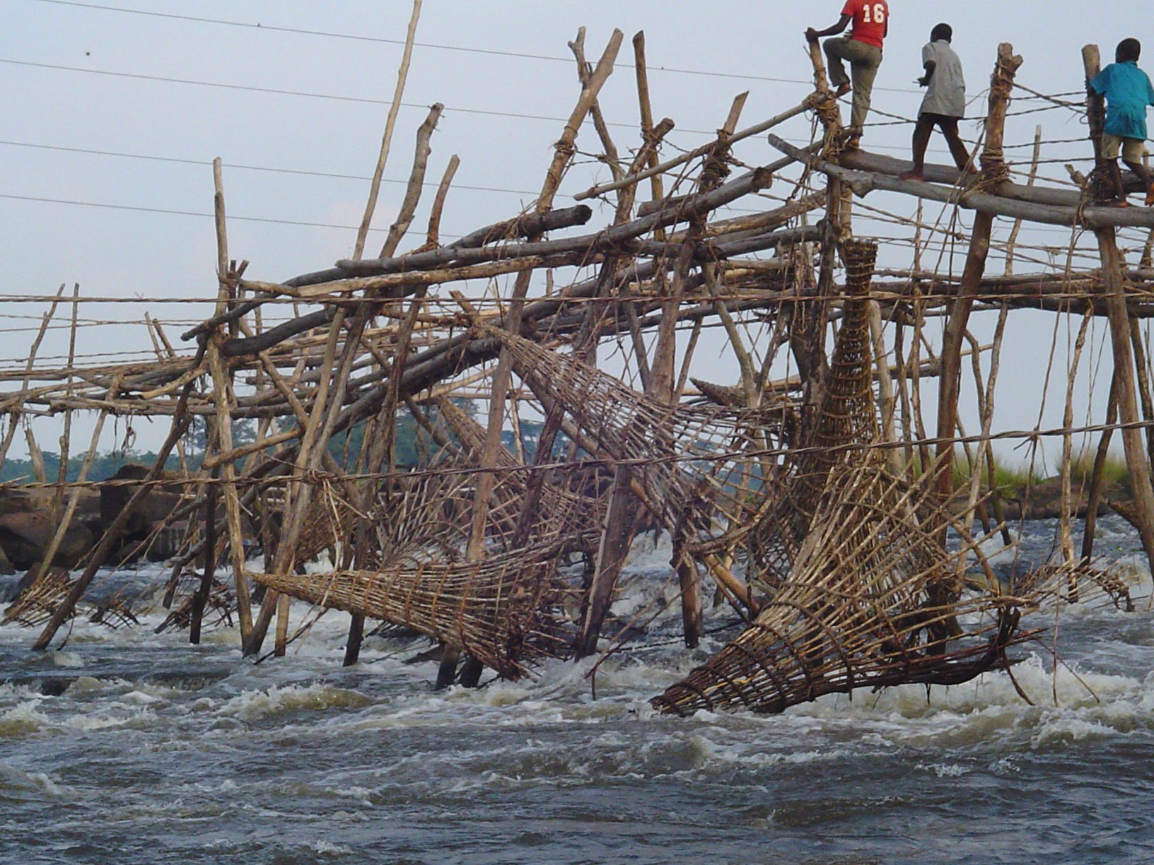 Fishing traps used by the Wagenya people in the Congo